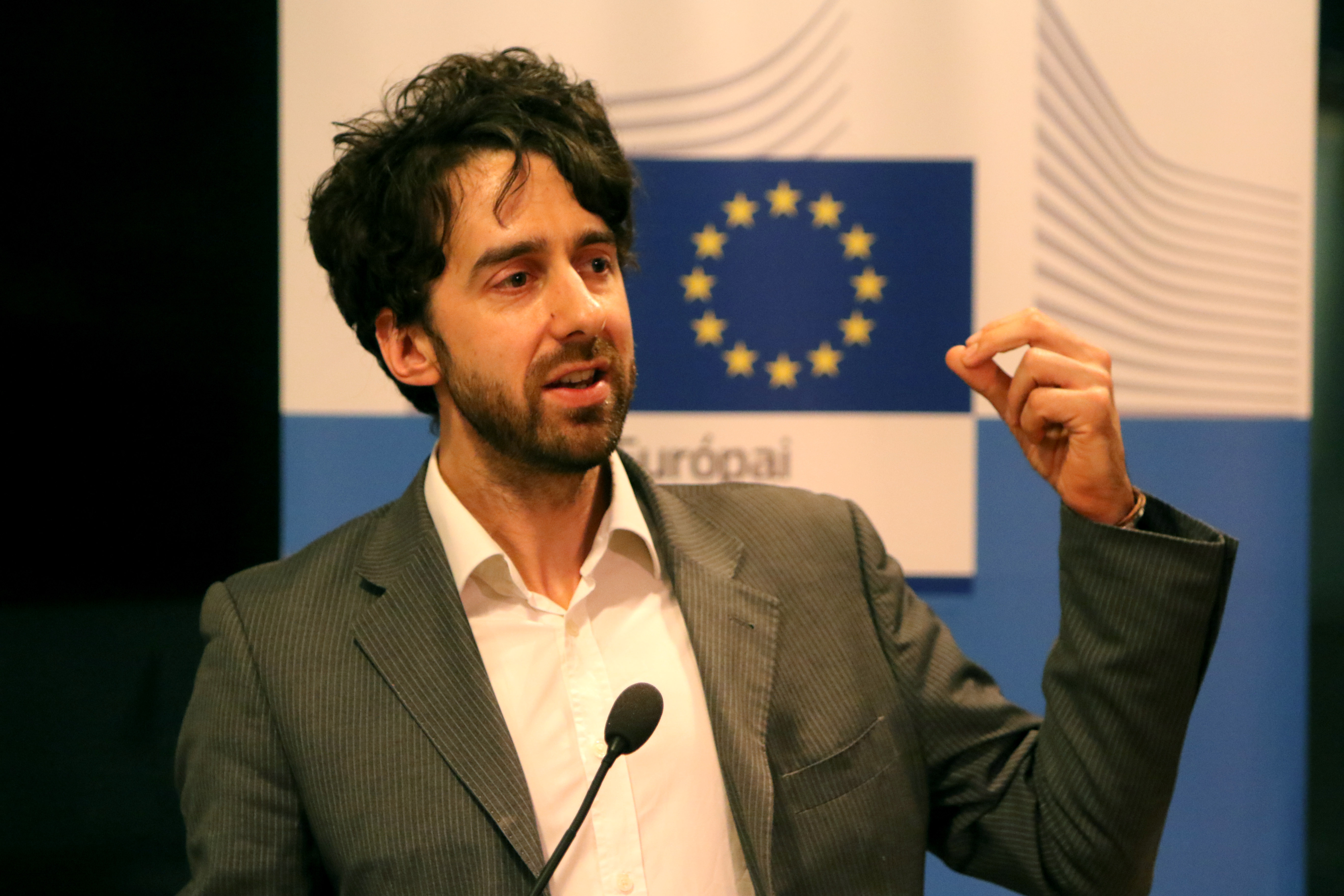 Jamie Bartlett in conversation with Inotai Edit at Centre for the Analysis of Social Media (CASM).